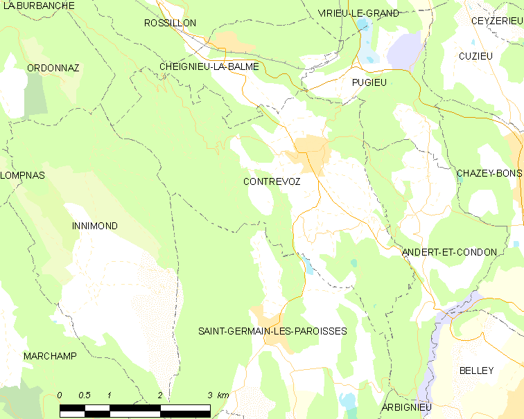 Map of French commune: Contrevoz Map commune FR insee code 01116.png